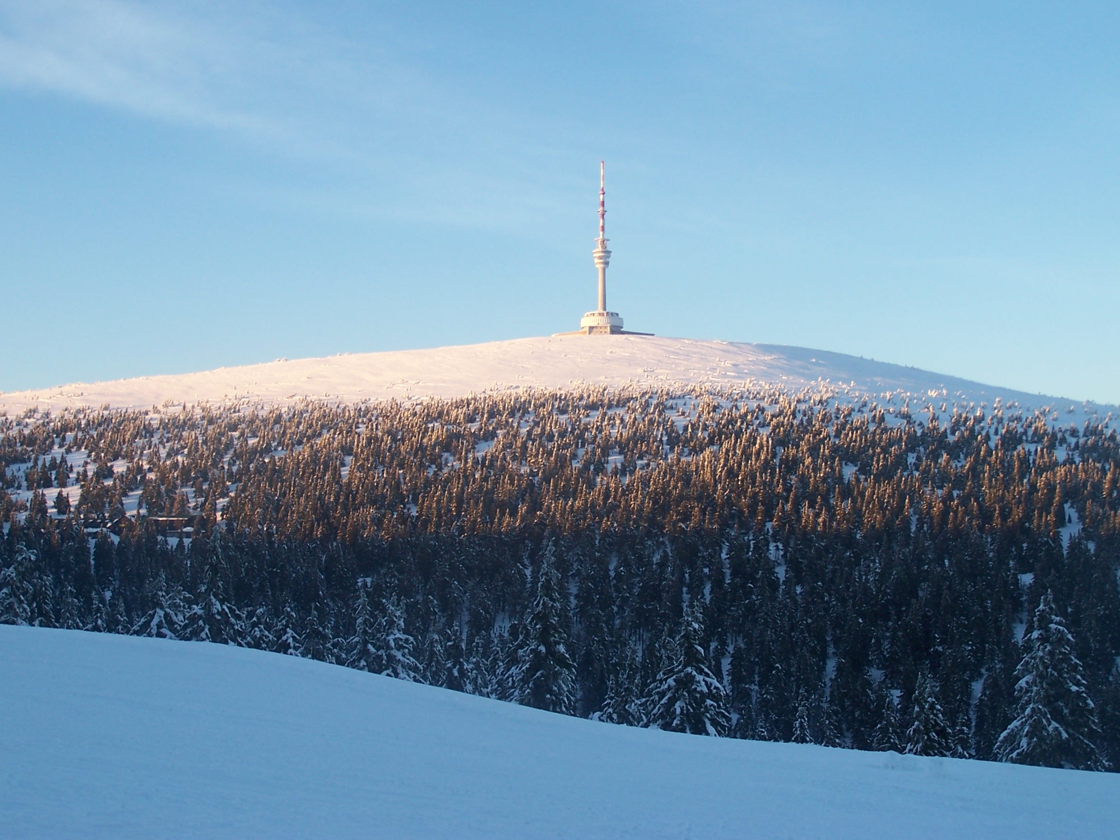 Praděd (Altvater) in winter